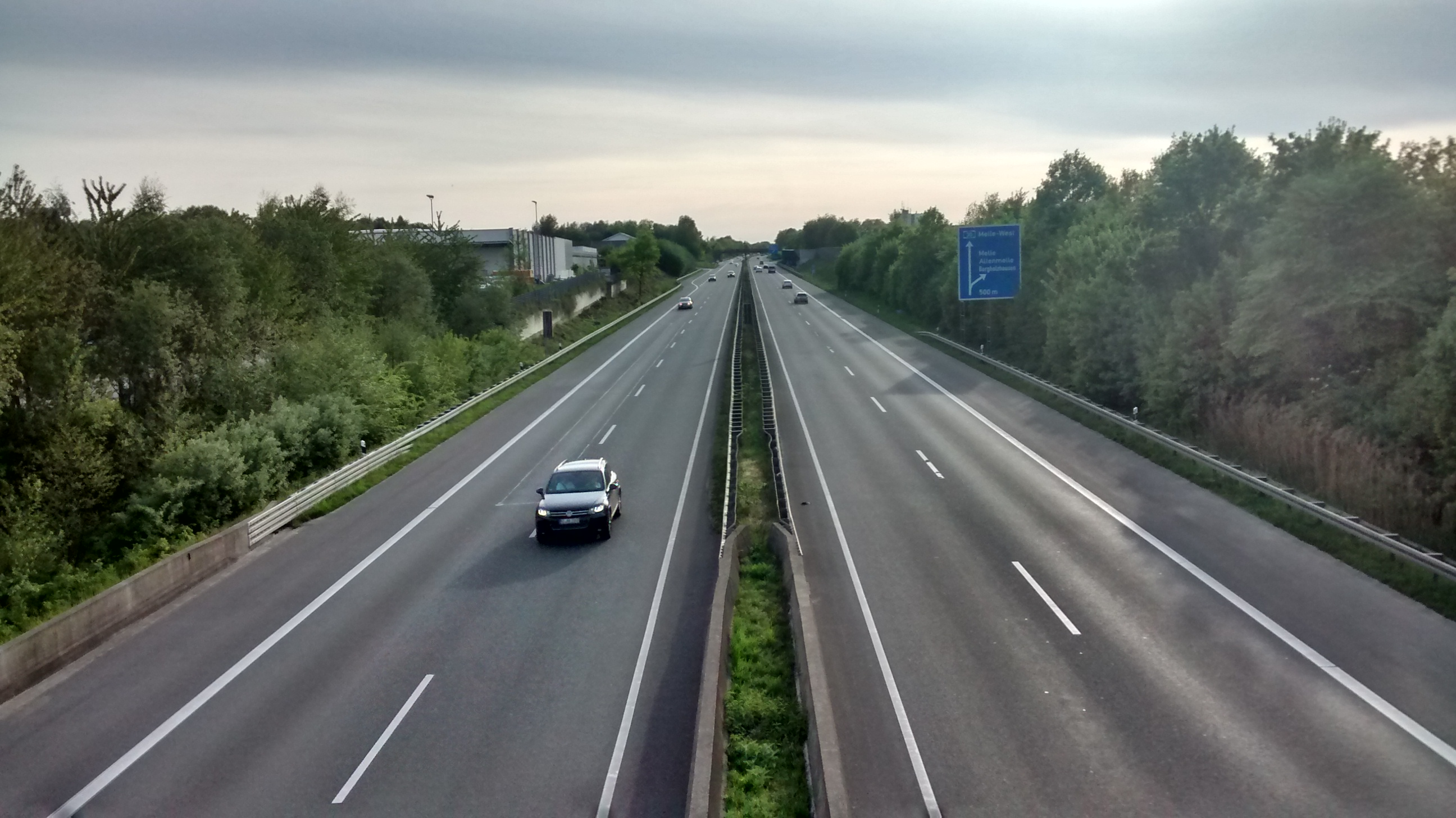 View from a bridge to the Melle-West Autobahn exit.